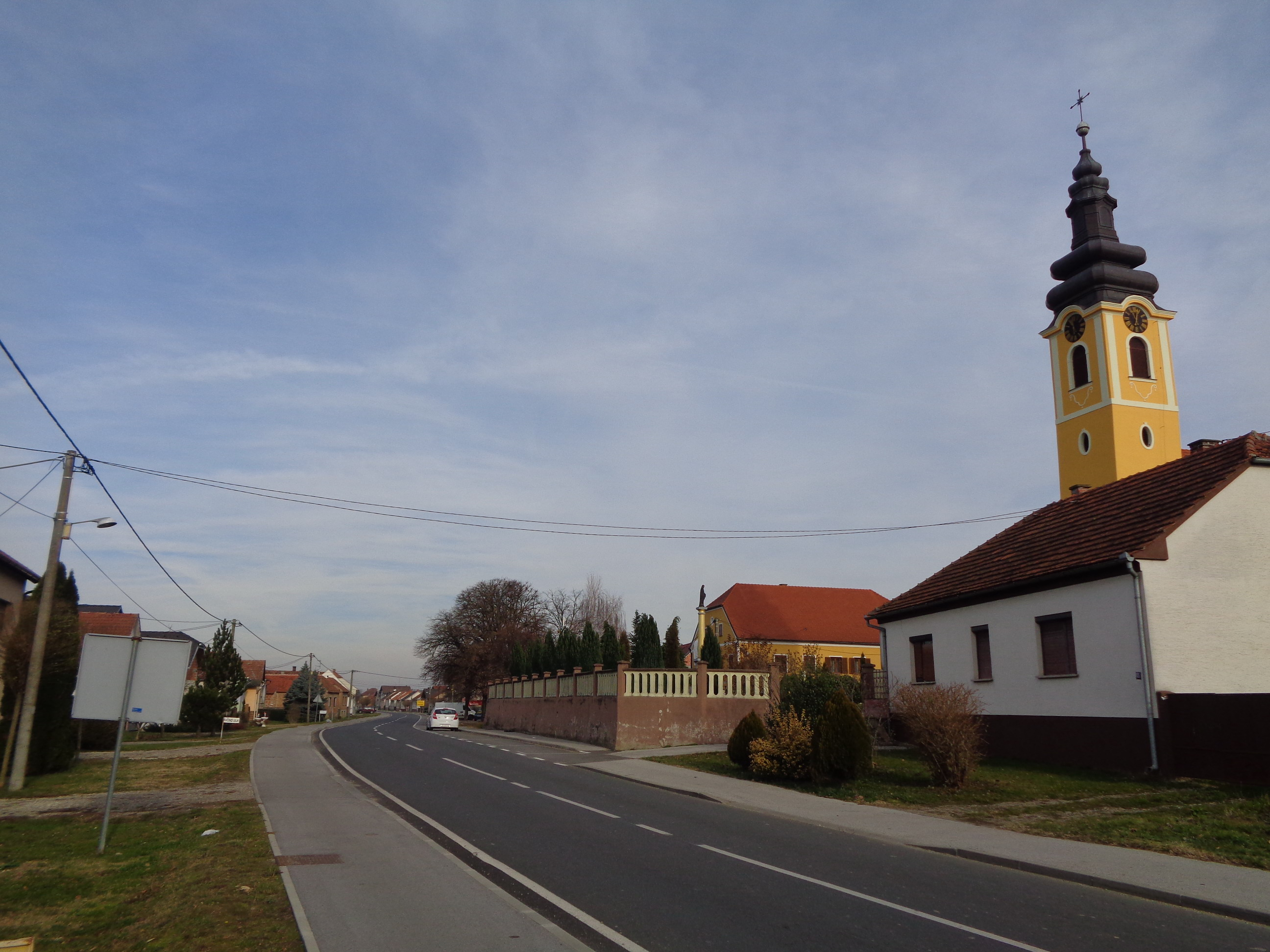 Mala Subotica, Medjimurje County, Croatia - Aloysius Stepinac street